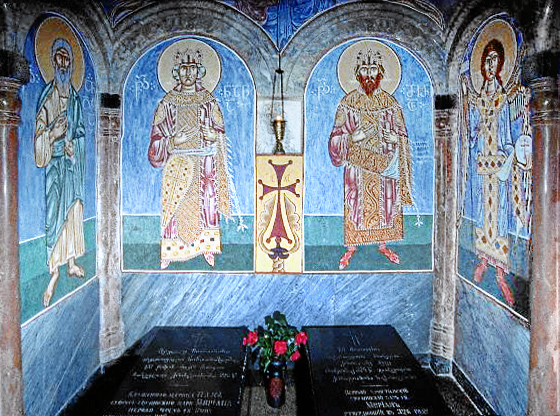 King Mirian and Queen Nana grave at Samtavro Church.